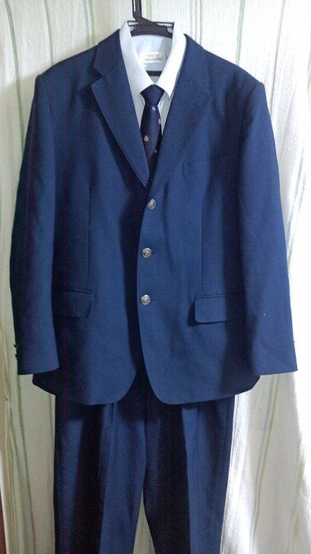 It is a uniform for males after the 2011 fiscal year of a Tochigi prefectural Utsunomiya kita high school.